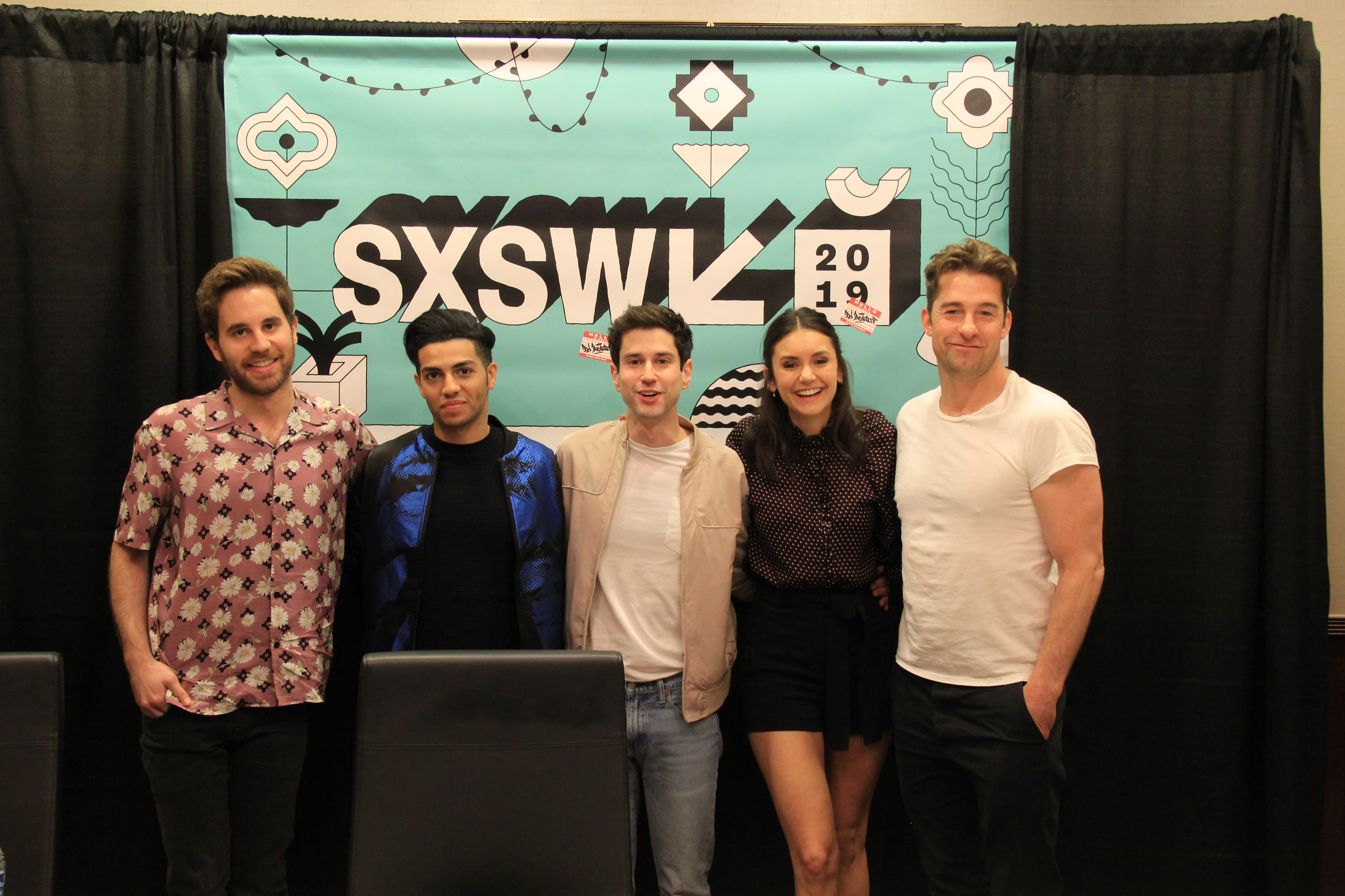 Ben Platt, Nina Dobrev, Mena Massoud, Scott Speedman, Ricky Tollman at SXSW during our round table interviews.